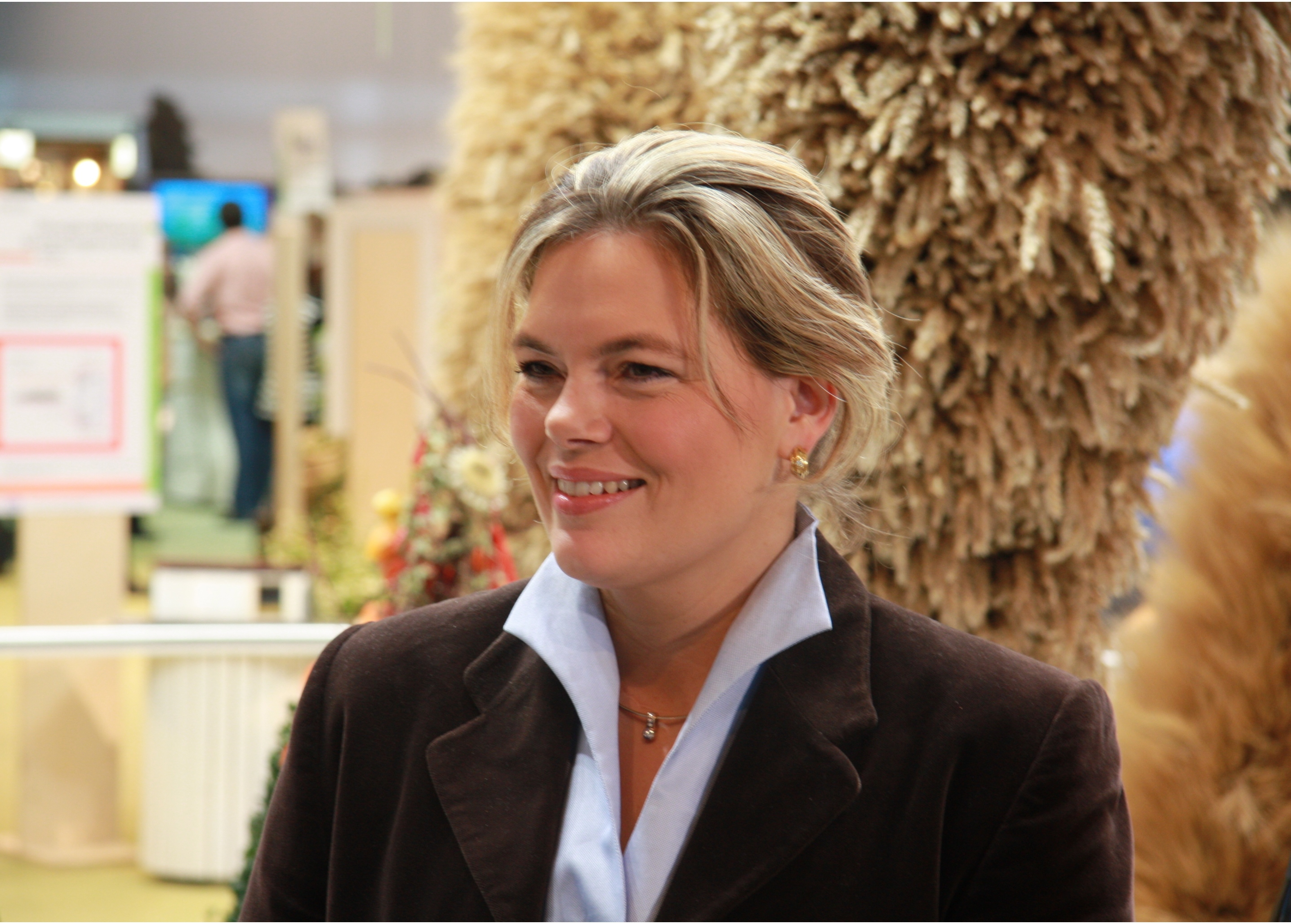 Julia Klöckner